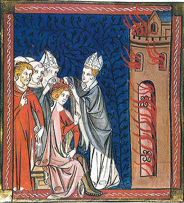 Coronation of Richard Lionheart, King of England (British Library, Royal 16 G VI f. 347v)